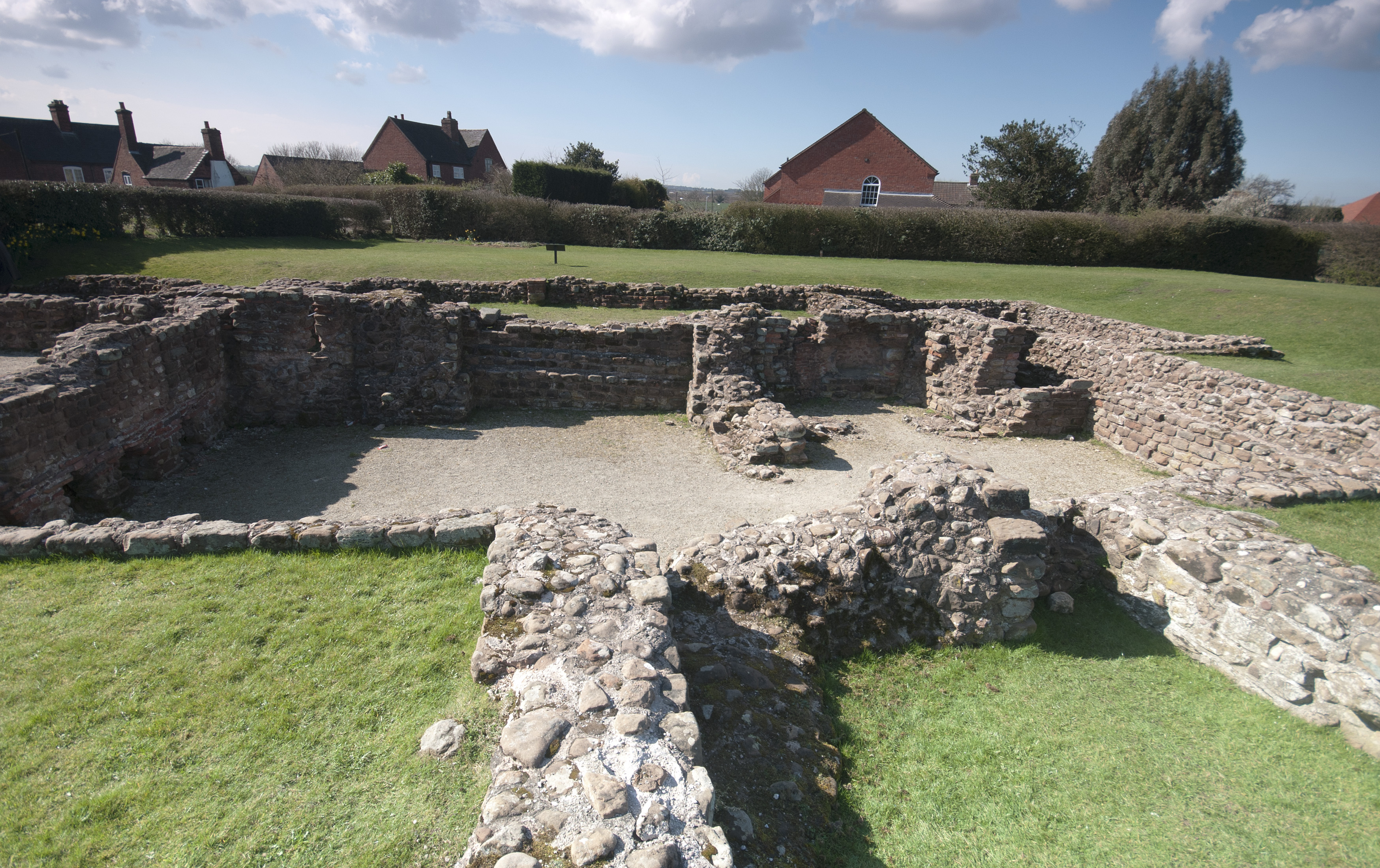 Remains of the roman bath house at Letocetum, Wall, Staffordshire, England.